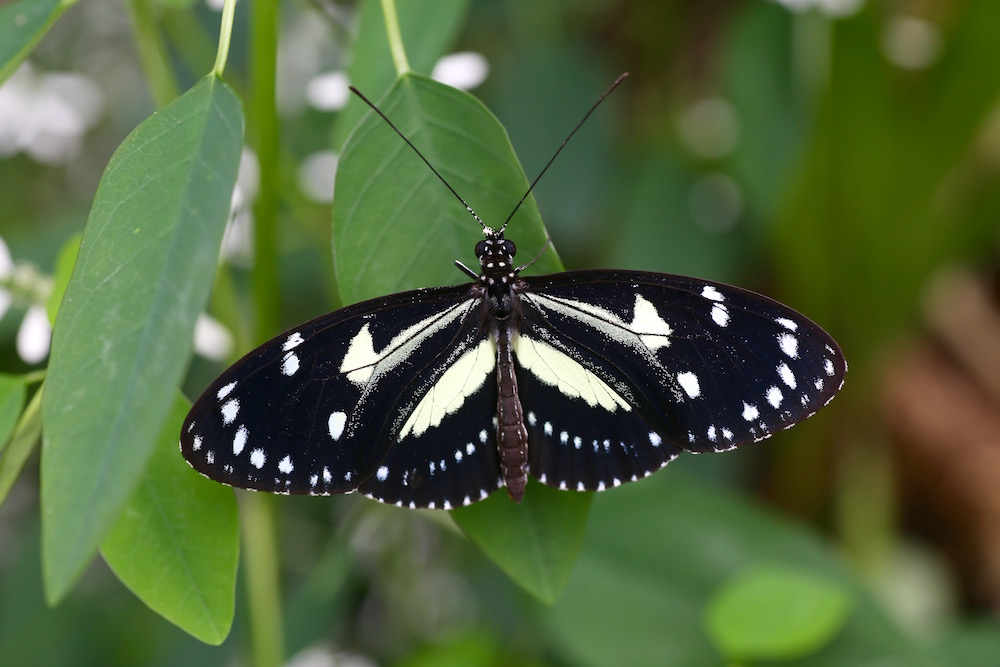 Heliconius atthis from Mindo, Ecuador